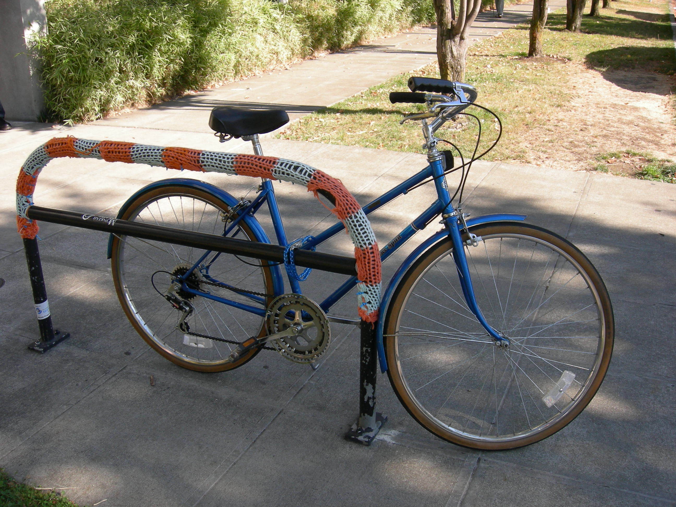 Knitted graffiti on bicycle rack in front of Frye Art Museum, Seattle, Washington.